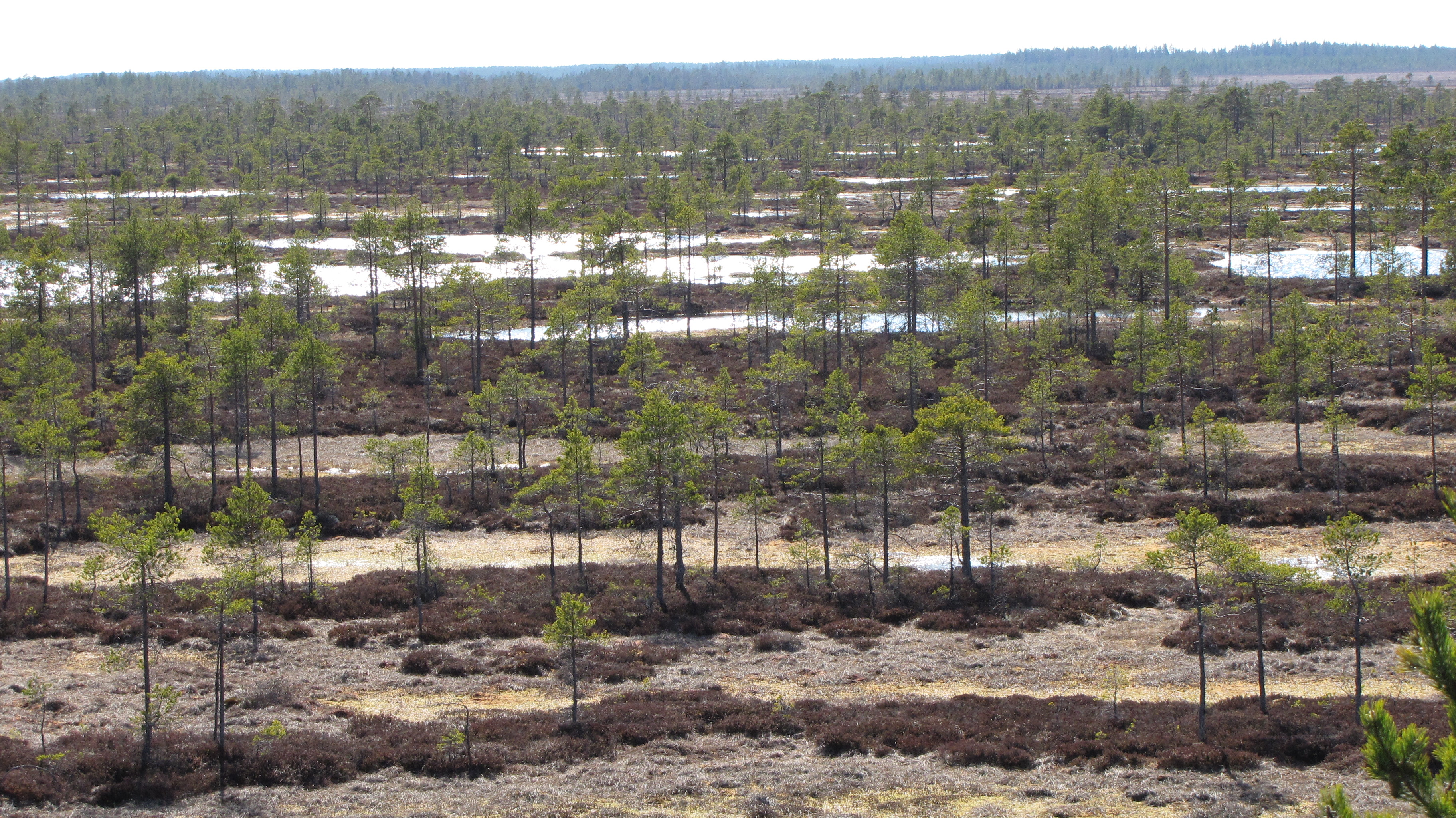 The Kauhaneva mire, one of the biggest mires in the southern half of Finland and a very significant nesting site for many bird species (especially cranes), is protected in the Kauhaneva–Pohjankangas National Park in the municipality of Kauhajoki, Southern Ostrobotnia.